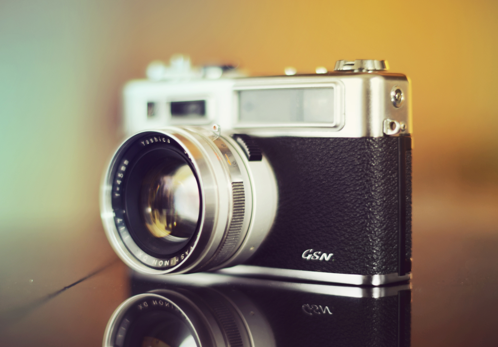 An electro 35 GSN still used today